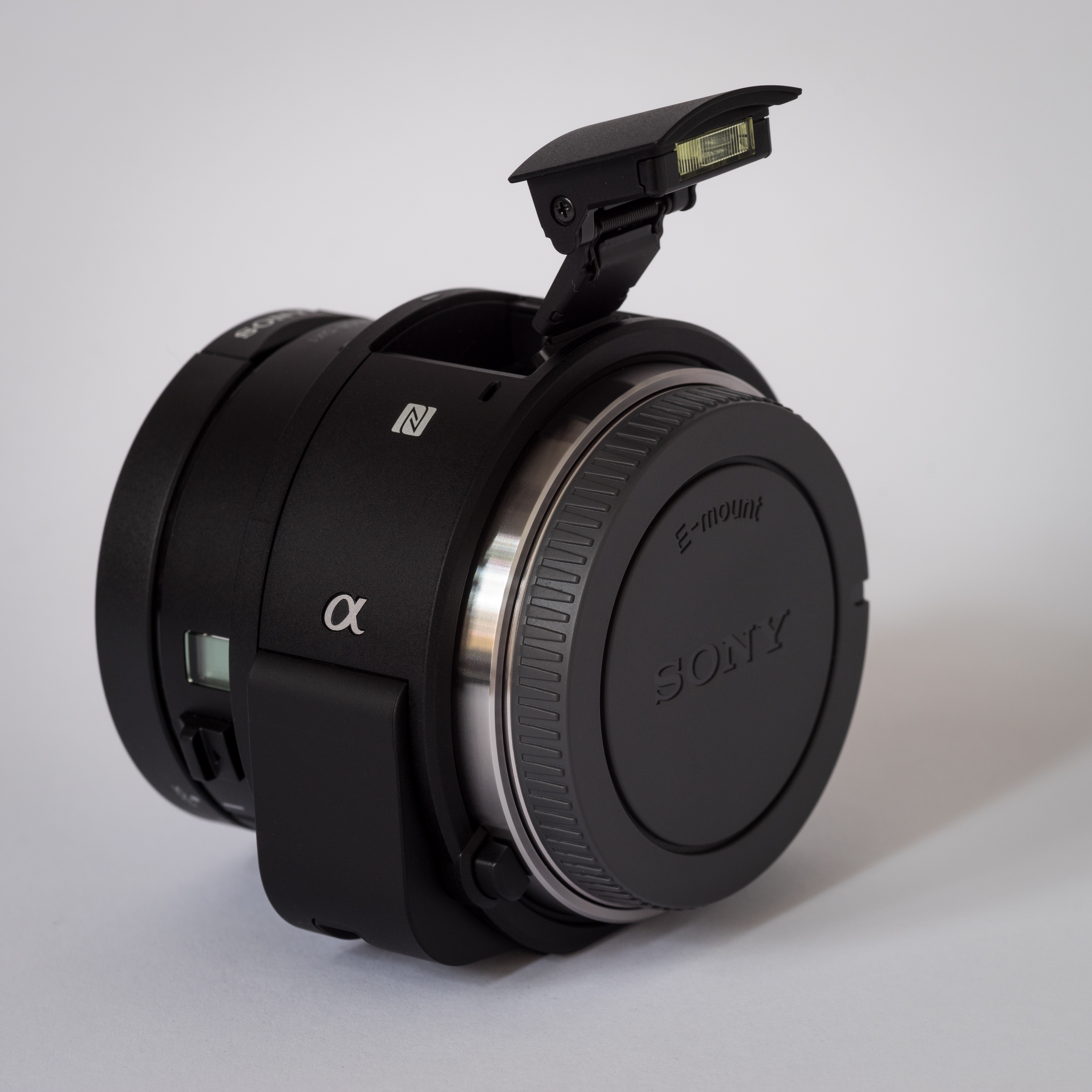 Sony Alpha ILCE-QX1 APS-C-frame camera (mirrorless interchangeable-lens camera), flash extended.